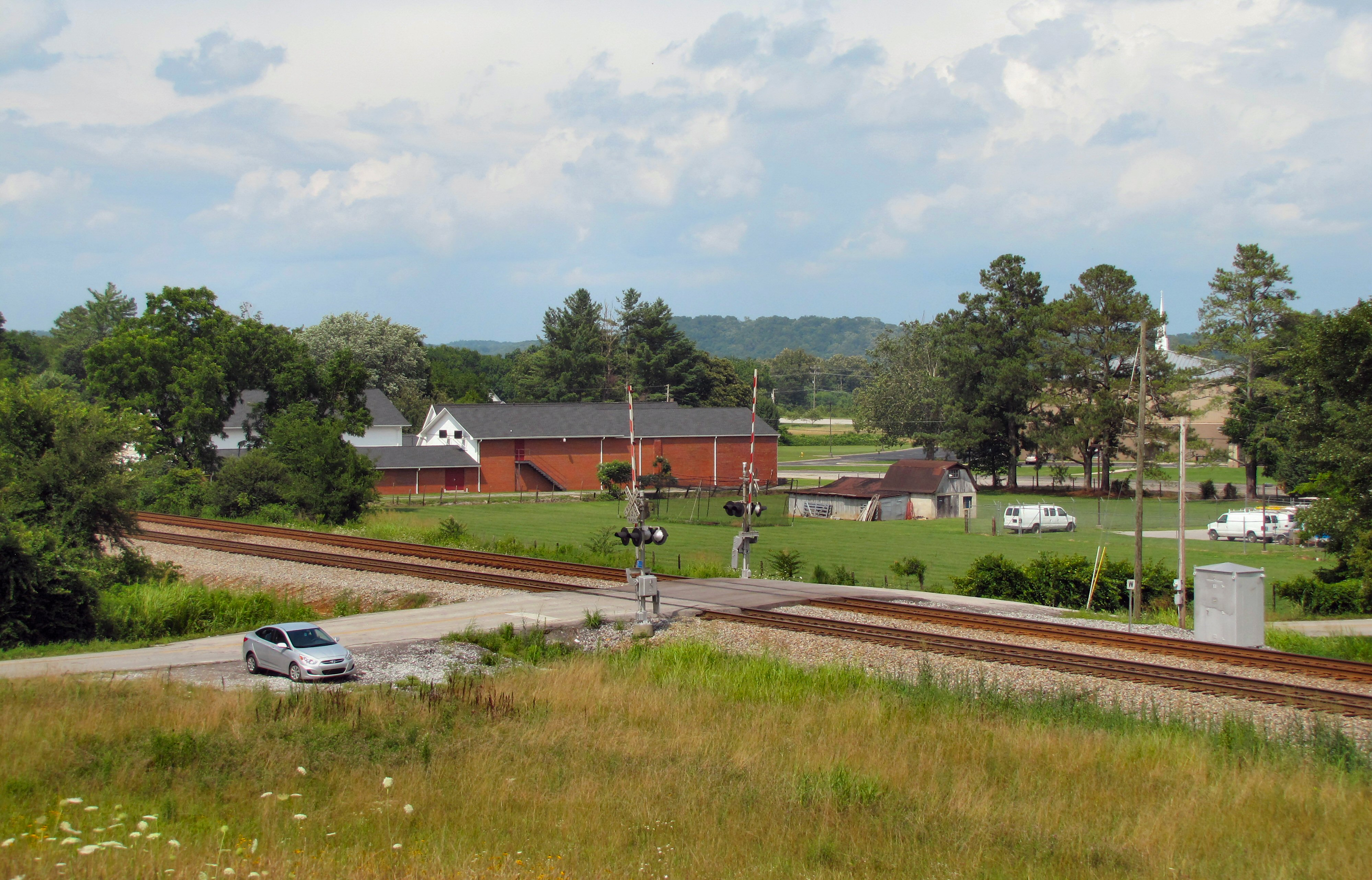 The community of Sale Creek in Hamilton County, Tennessee, United States. Reavley Road crosses the Norfolk Southern tracks below.